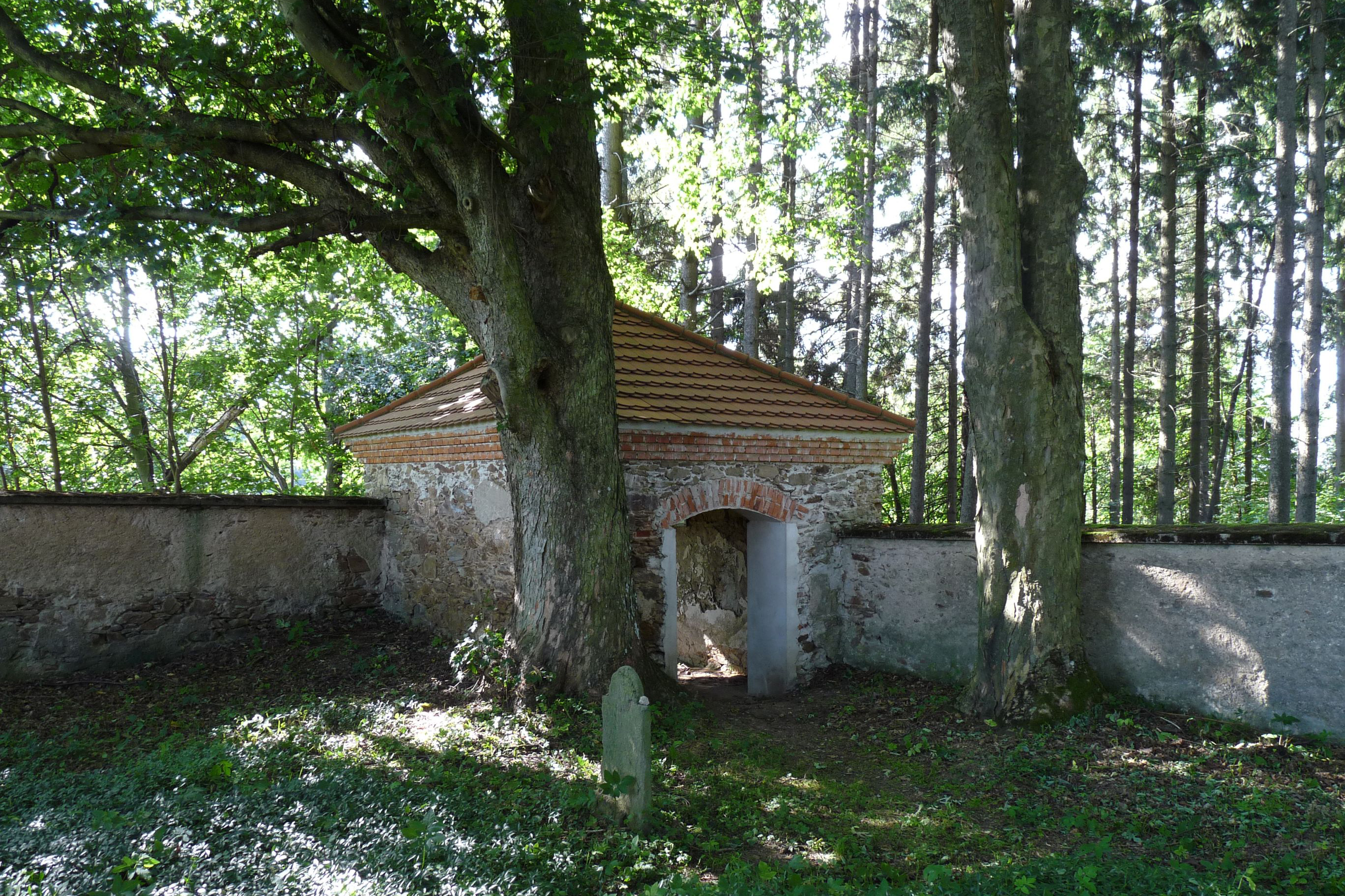 Ceremonial hall in the Jewish cemetery near the village of Babčice, Tábor District, Czech Republic.